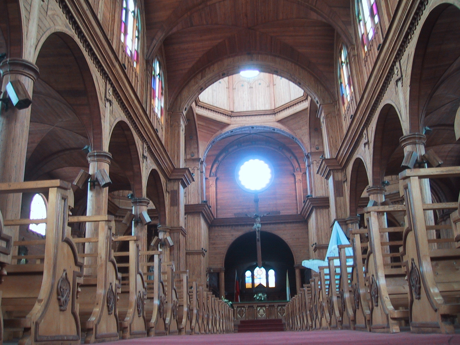 Church of wood in Chiloe. Iglesia San Francisco de Castr.